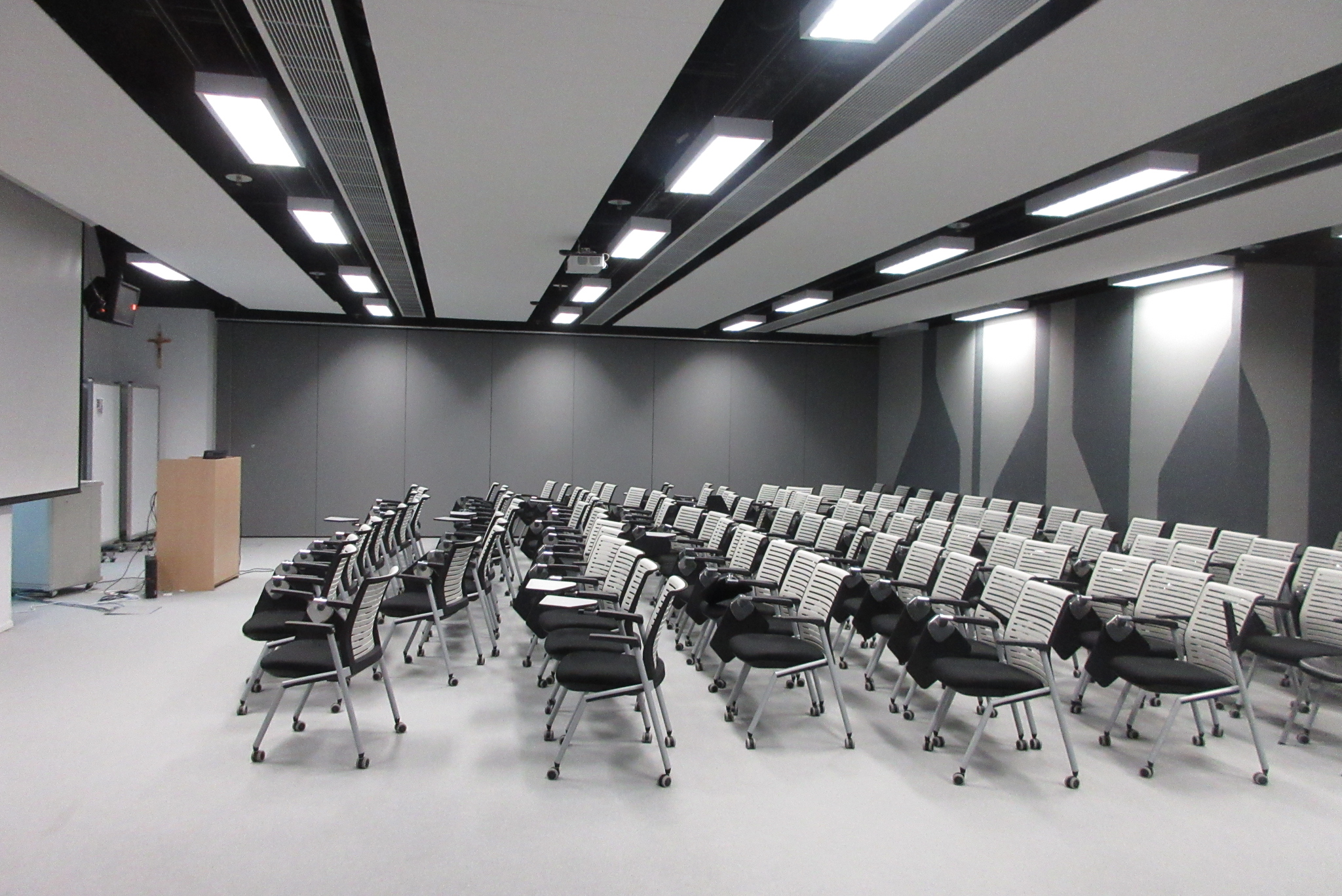 HK TKL 調景嶺 Tiu Keng Leng 明愛專上學院 CIHE theatre room interior in January 2018